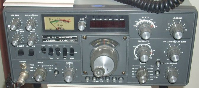 Yaesu FT-101ZD HF transceiver. Early version without the WARC bands.